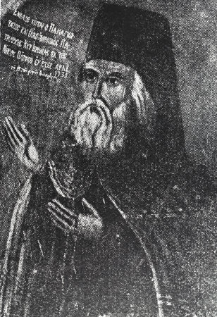 Ecumenical Patriarch Ieremias III - National Documentation Center, Gedeon, Manuel, Chronograph Notations 1800-1913, Athens 1932